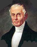 Valentín_Gómez_Farías, president of Mexico